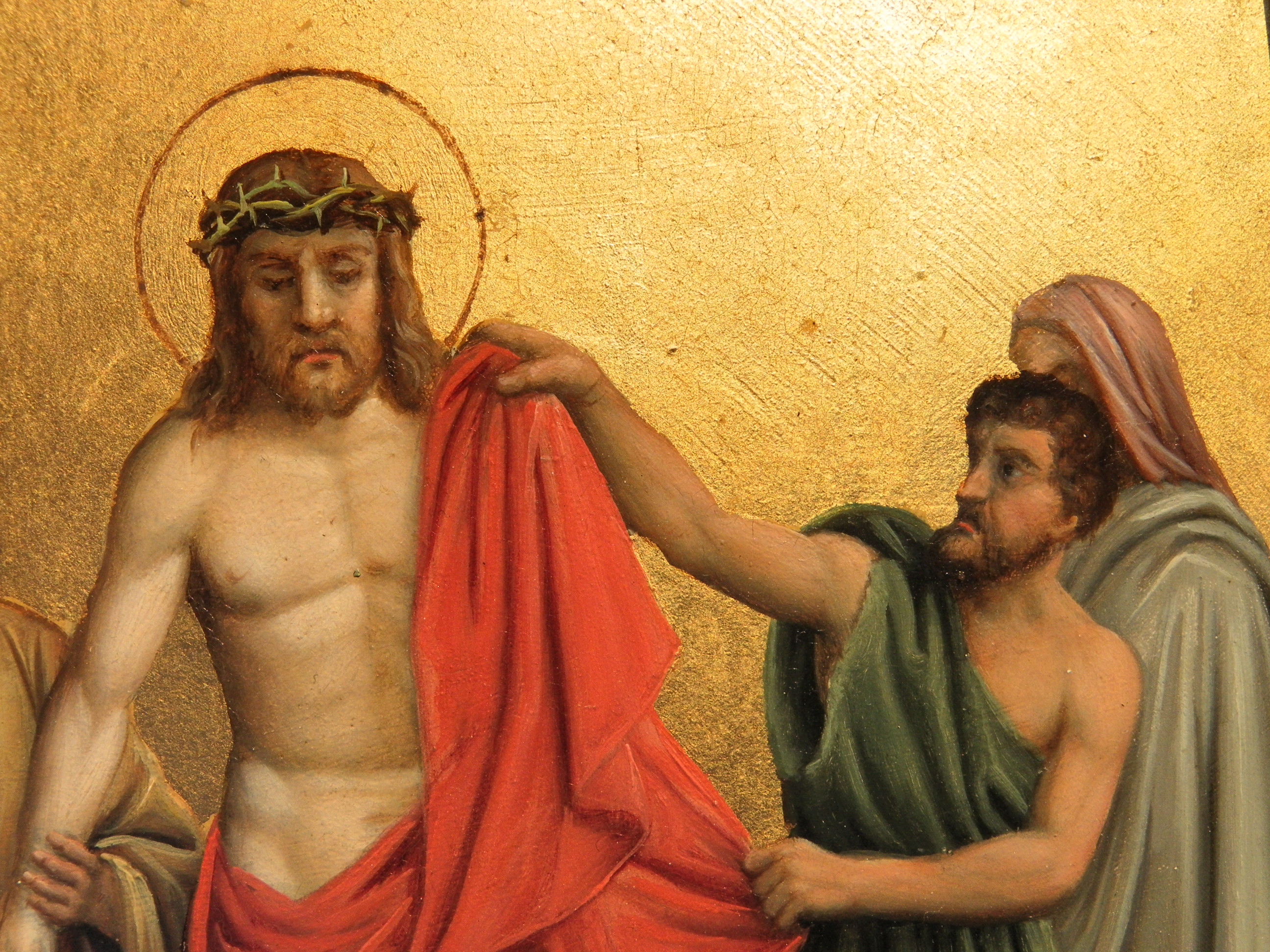 Station of the cross, Saint Symphorian church of Pfettisheim, Bas-Rhin, France.